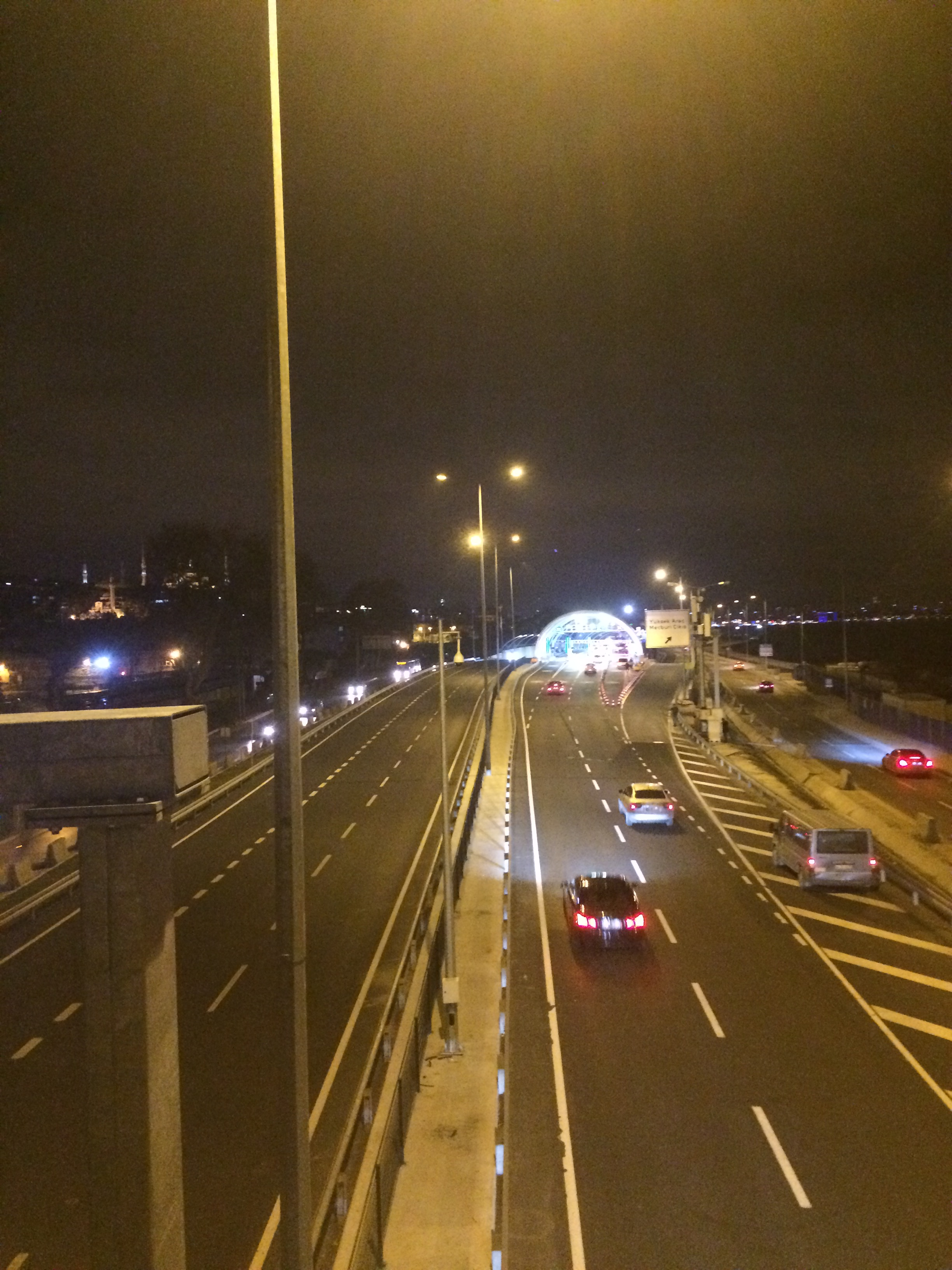 Entrance to Eurasia Tunnel on Kumkapı side